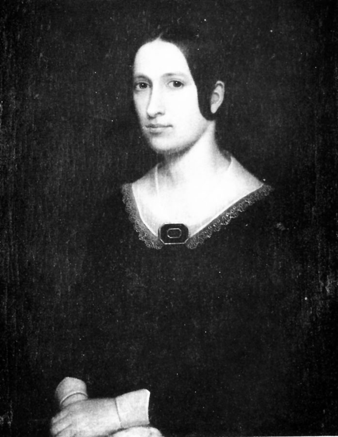 Portrait of Caroline Searles Griswold, first wife of Rufus Wilmot Griswold.